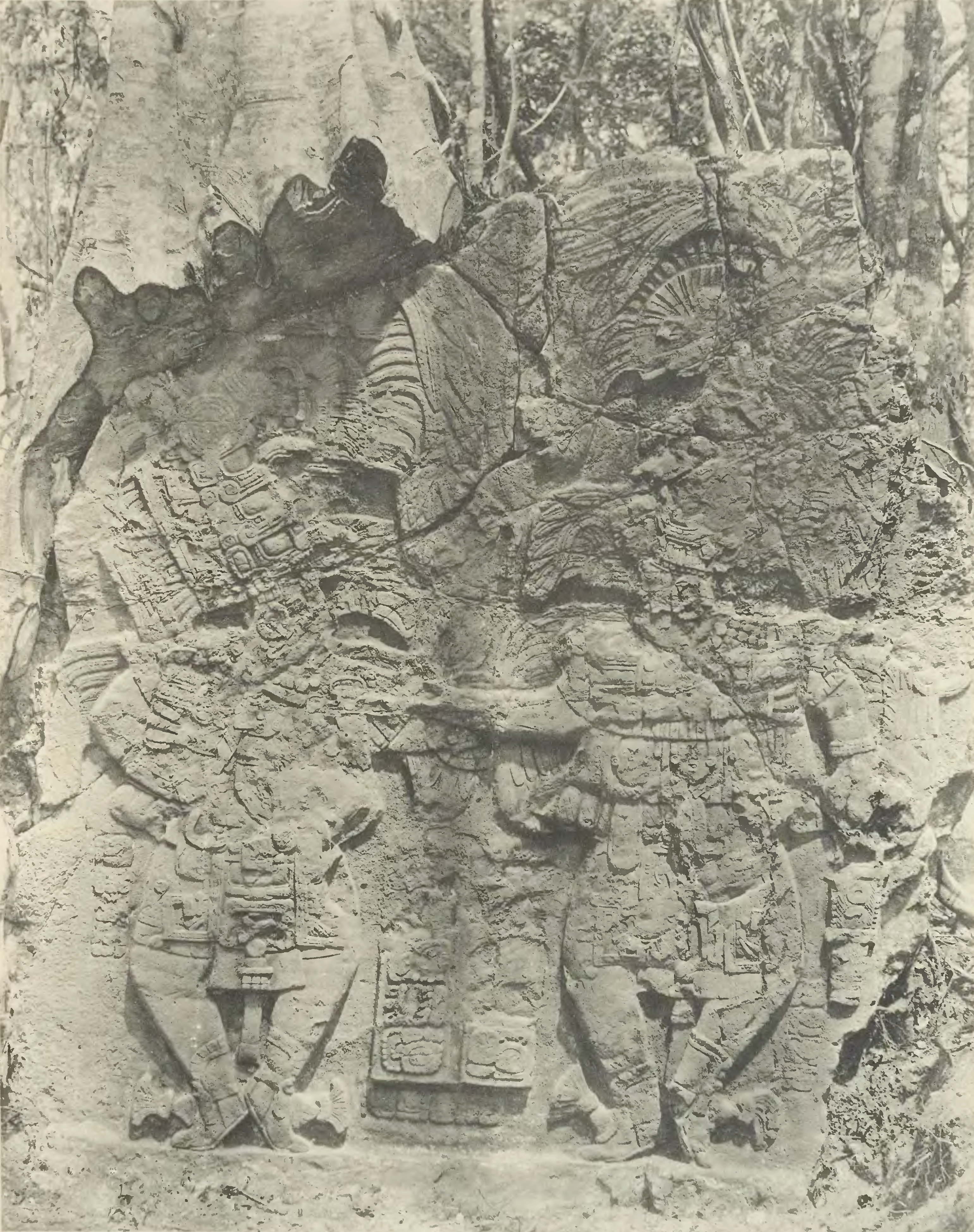 Plate 45 from Researches in the Central Portion of the Usumatsintla Valley by Teobert Maler, published in 1908. Stela 2 from Motul de San José, Petén, Guatemala. East side.